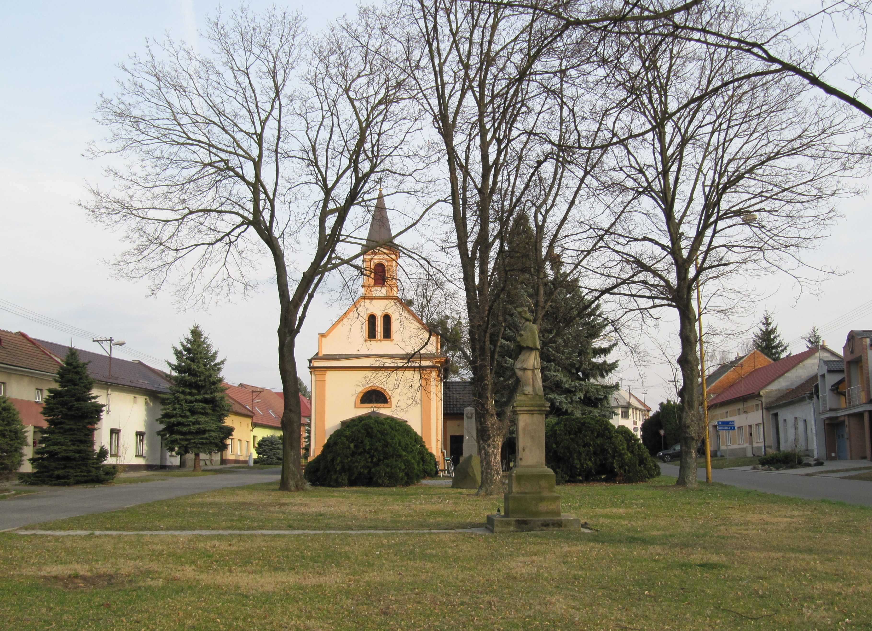 Otrokovice in Zlín District, Czech Republic, part Kvítkovice. Common of the former village Kvítkovice with the church of St. Anne.